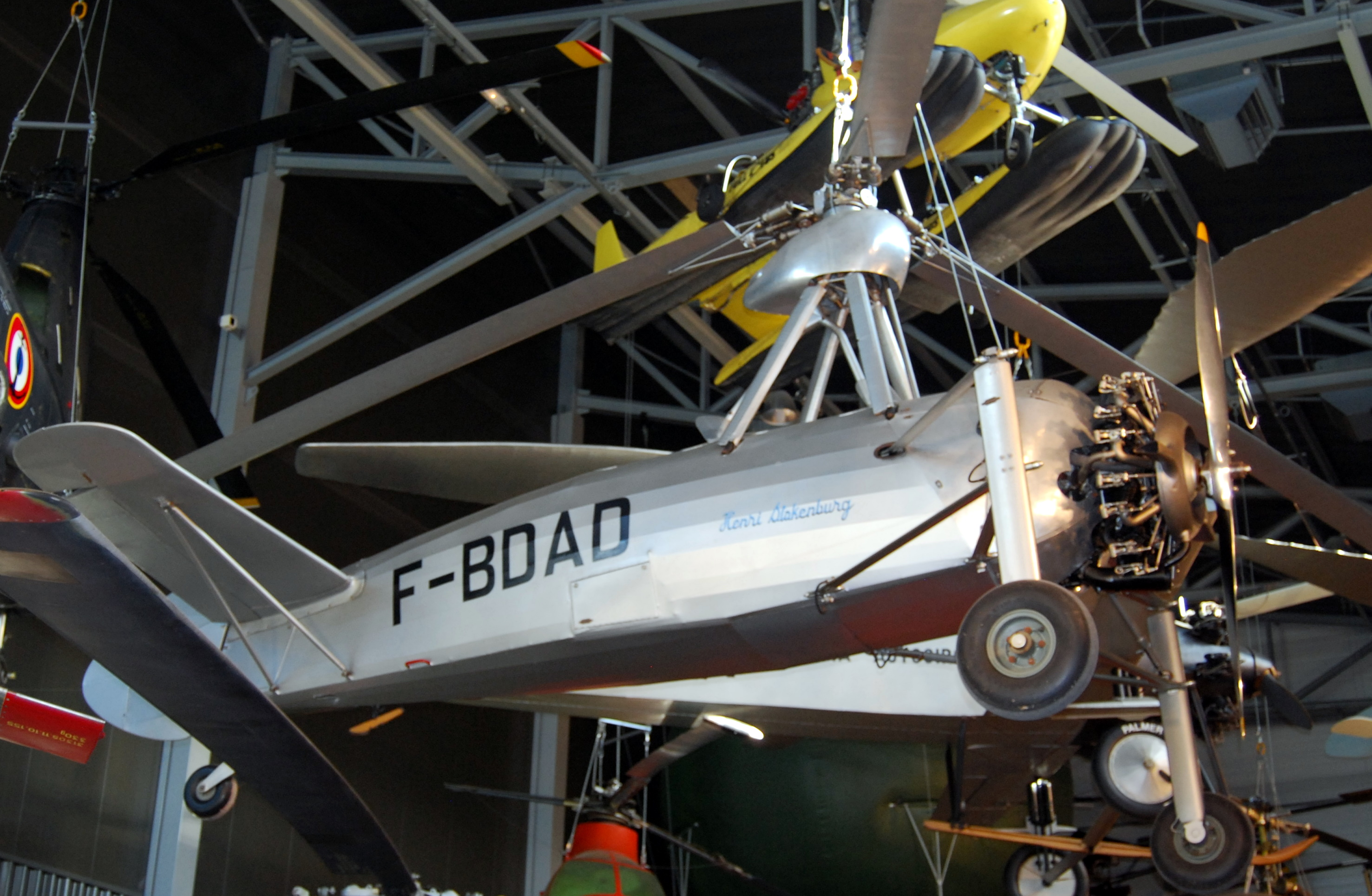 Photo ref; DSC1246-2012